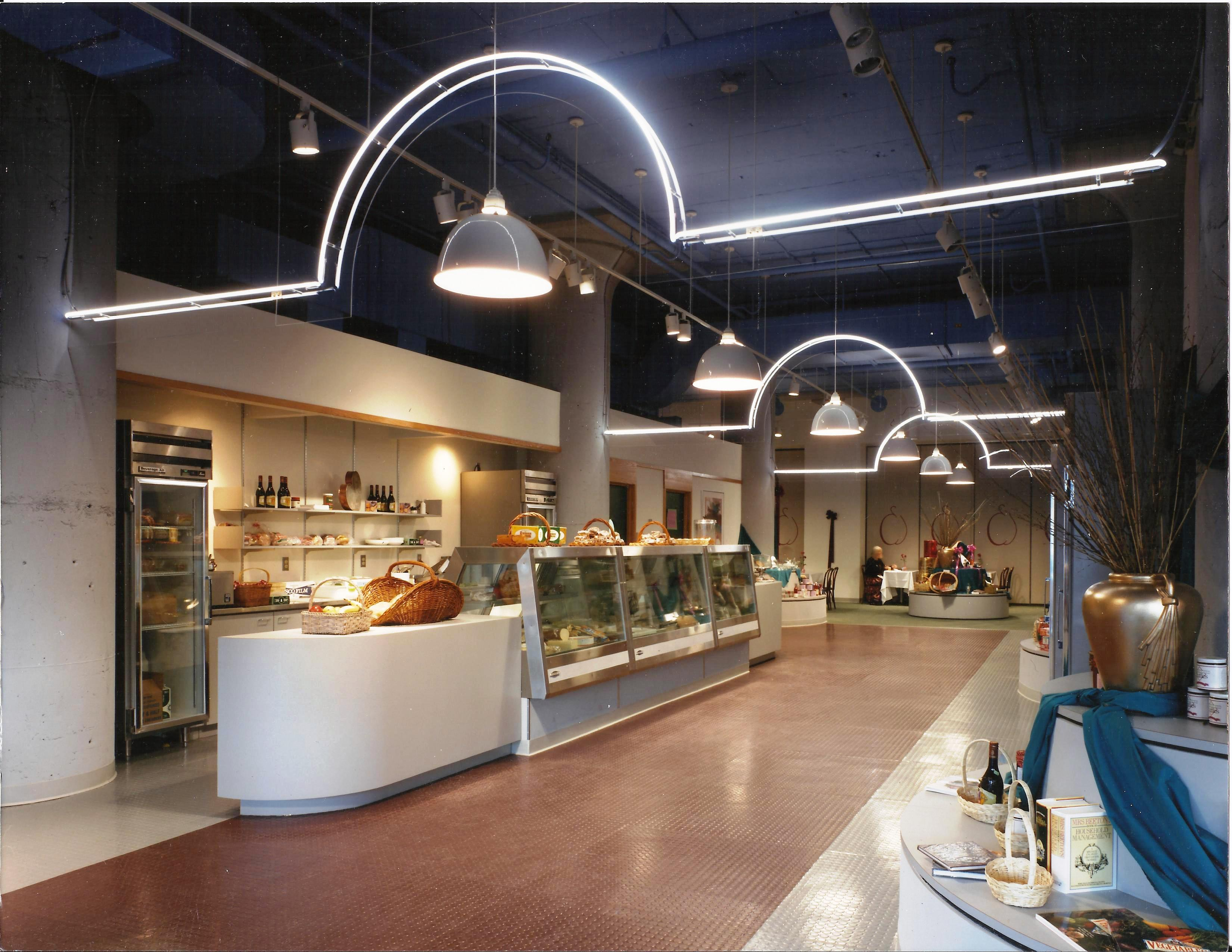 Damson & Greengage Gourmet Deli, Boston, MA 1987 photo by William T. Smith